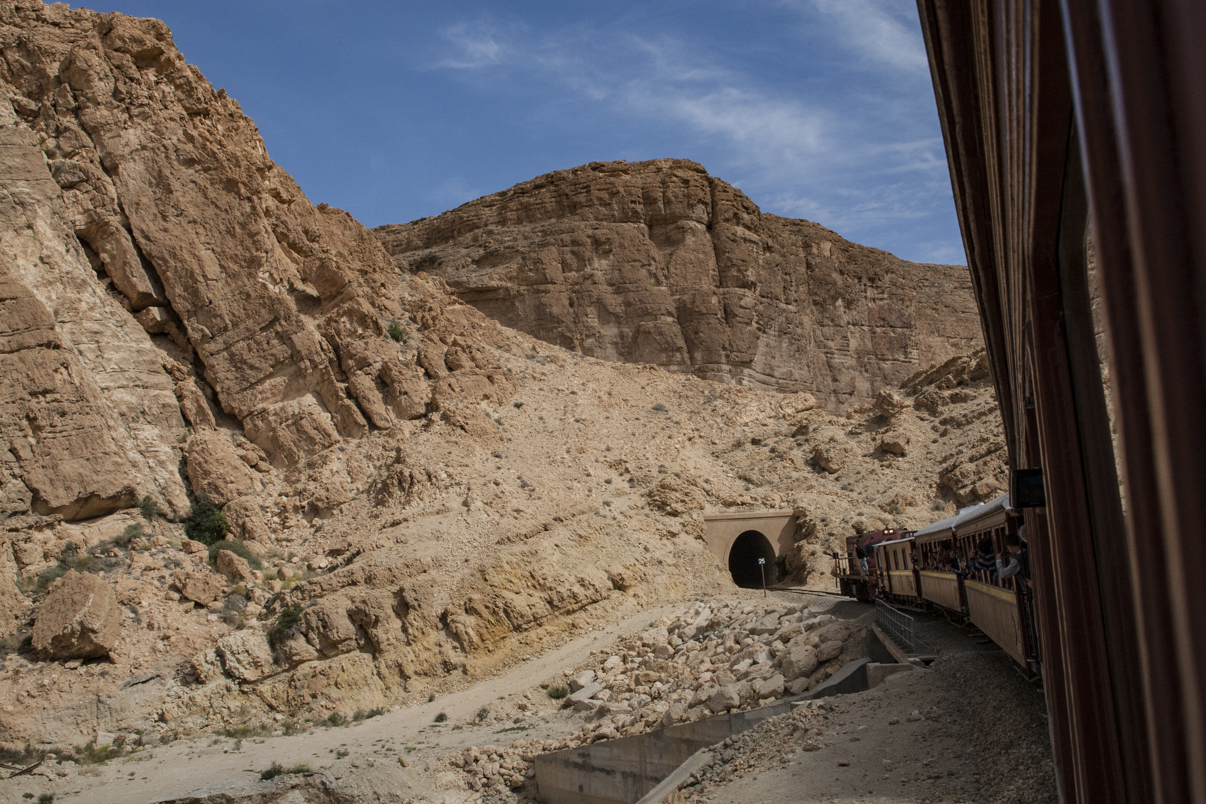 Selja gorge with the train "Lezard Rouge"